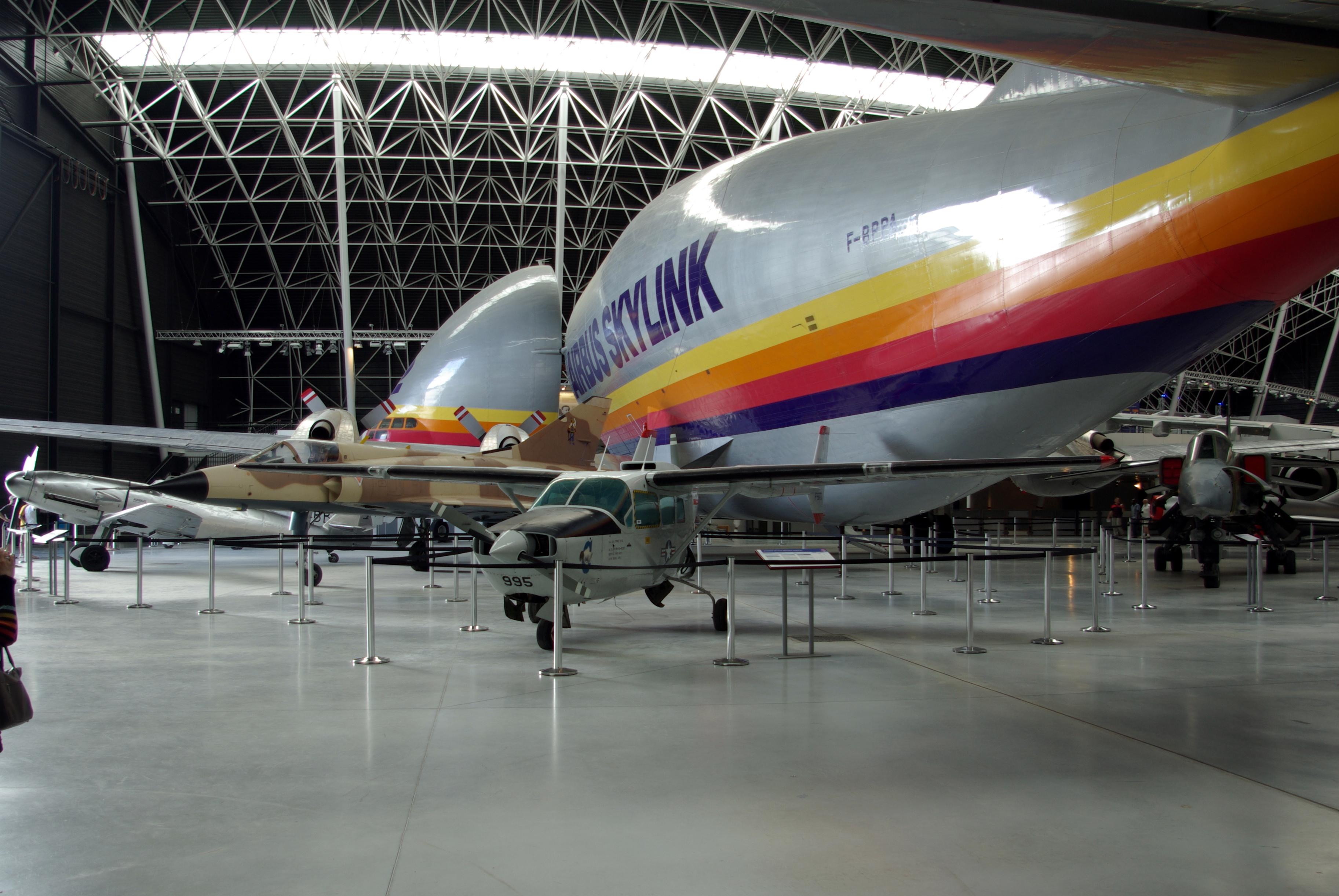 Main hall of Aeroscopia with Sepecat Jaguar A04, Super Guppy, Cessna 337 Skymaster, Mirage IIIC and Messerschmitt Bf 109 from the Airbus Group collection.